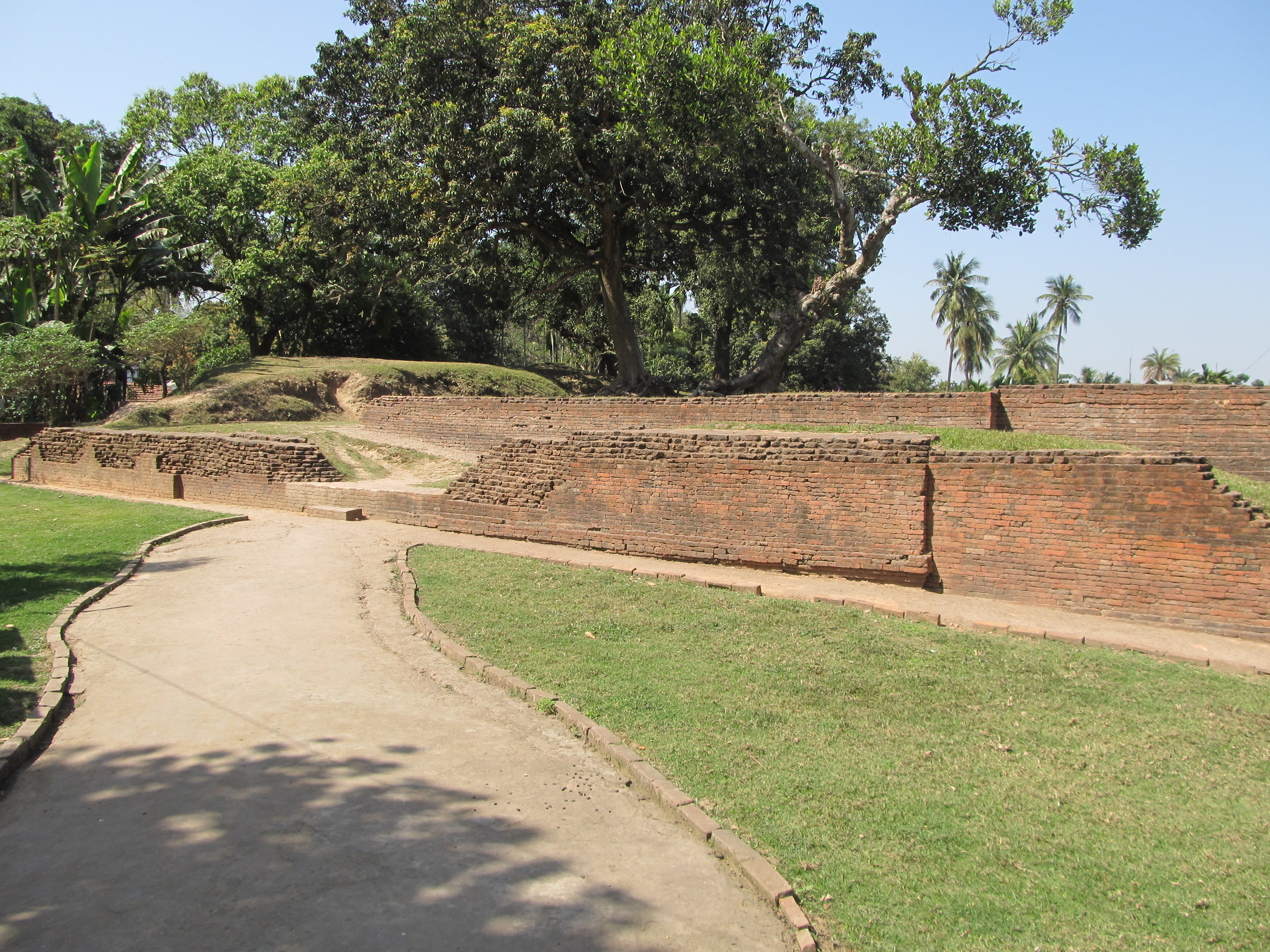 Khana-Mihir Mound (Khana-mihirer Dhipi, hi. Khana-mihir ka tila) also known as (Barahamihirer Dhipi) forms part of huge fortified township named Chandraketugarh. It was first excavated by the Asutosh Museum of Calcutta University in 1956-57 revealing a continuous sequence of cultural remins from 11th century BC pre-mouryan period of 12th century AD Pala period. The most remarcable discovery of the excavation is a polygonal brick temple facing north. This temple has projections on three sides and it is connected with a square vestibule. This temple which was earlier thought to be of Gupta period infact belongs to Pala period which is presumed by its plan adchitecture and decorative designs. The excavation has also unearthed Buddha image, votive stupas, terracotta plaques depicting Buddha and Jataka stories. Coins, terracotta sealing and different types of beads of early historical and historical periods.